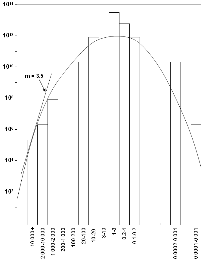 Distribution of Uranium in the Earth's crust